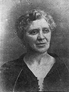 Hristina Papatheodorou